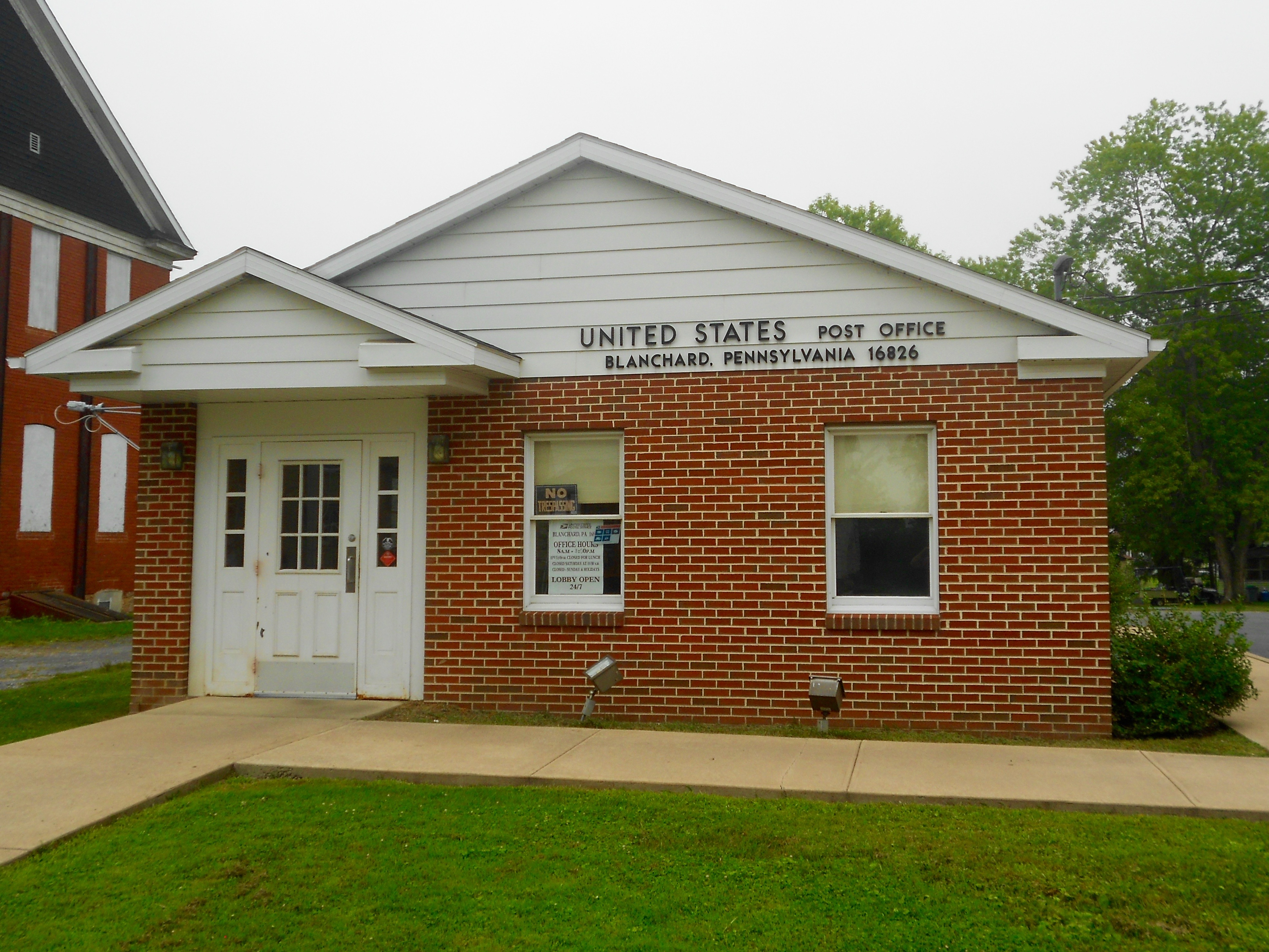 US postoffice in Blanchard, Centre County, Pennsylvania. Zip cod 16826